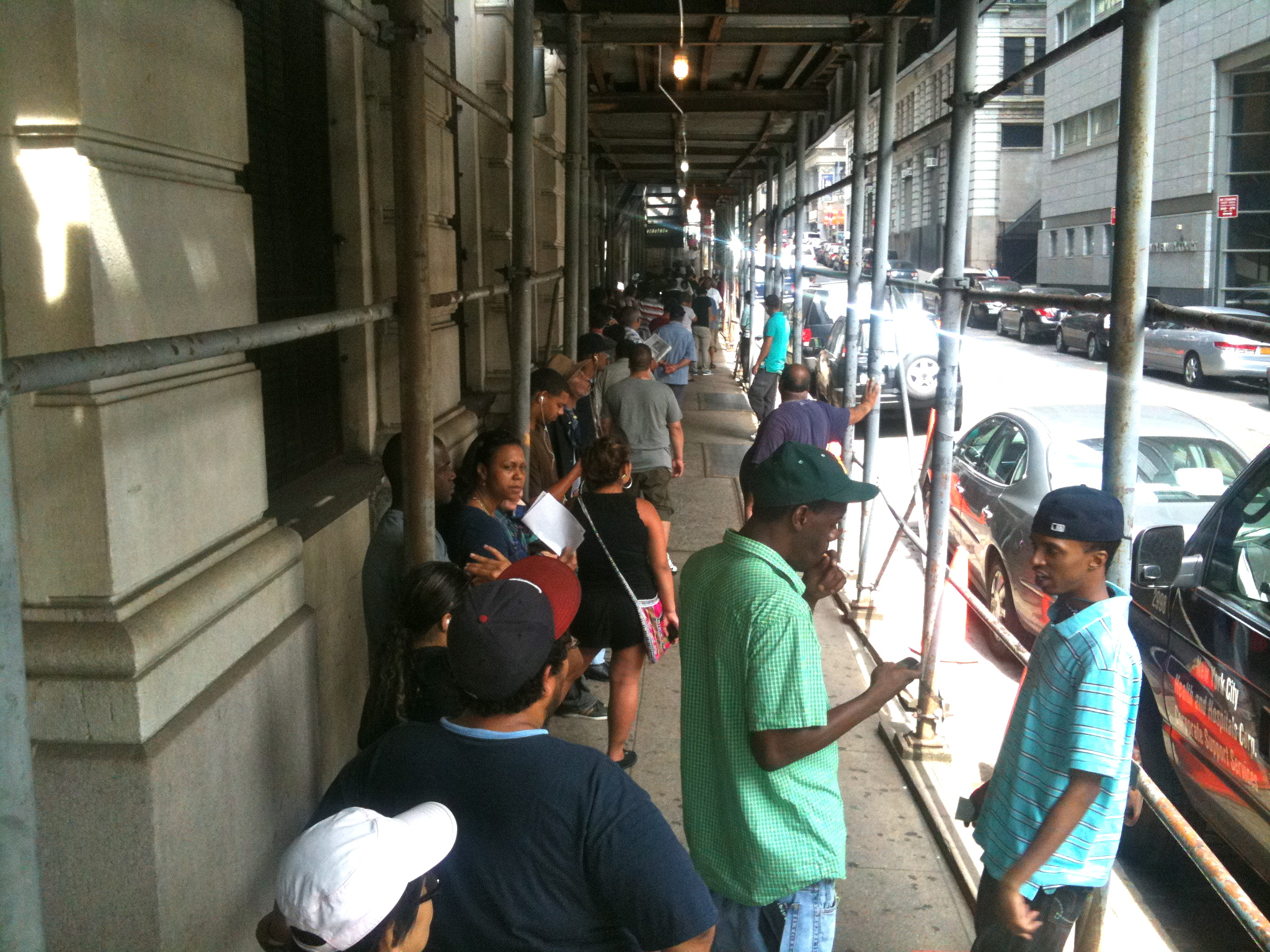 The line at the summons court house